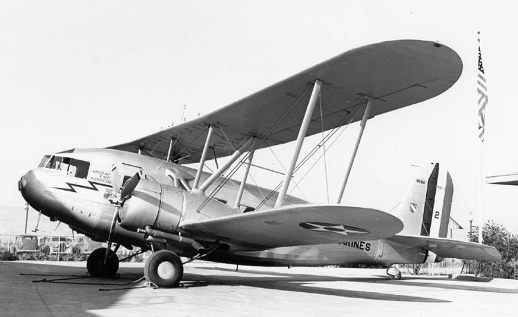 Curtiss R4C-1 (9584) USMC